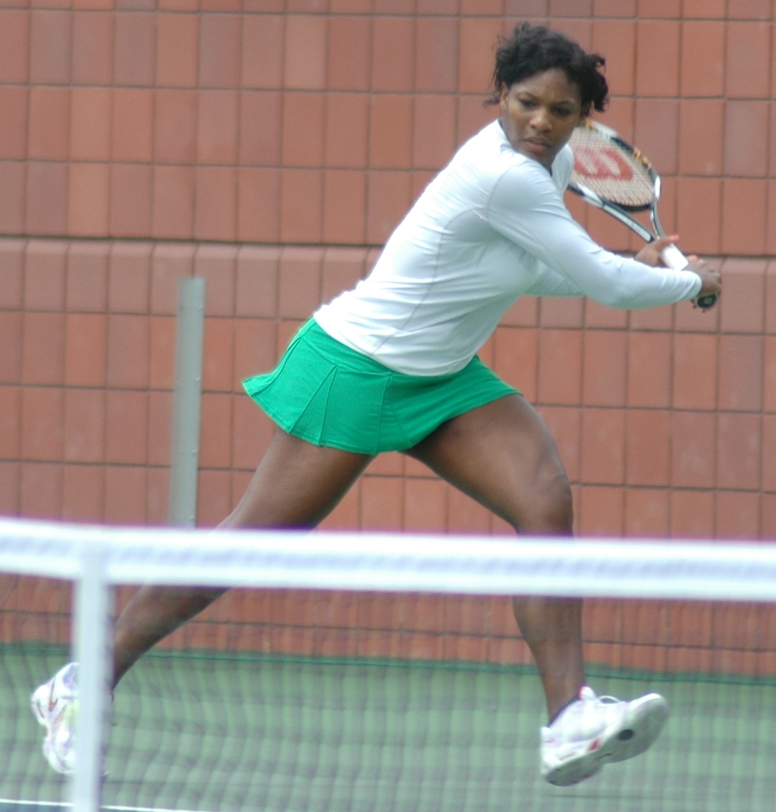 Serena Williams on the practice court at the 2008 US Open